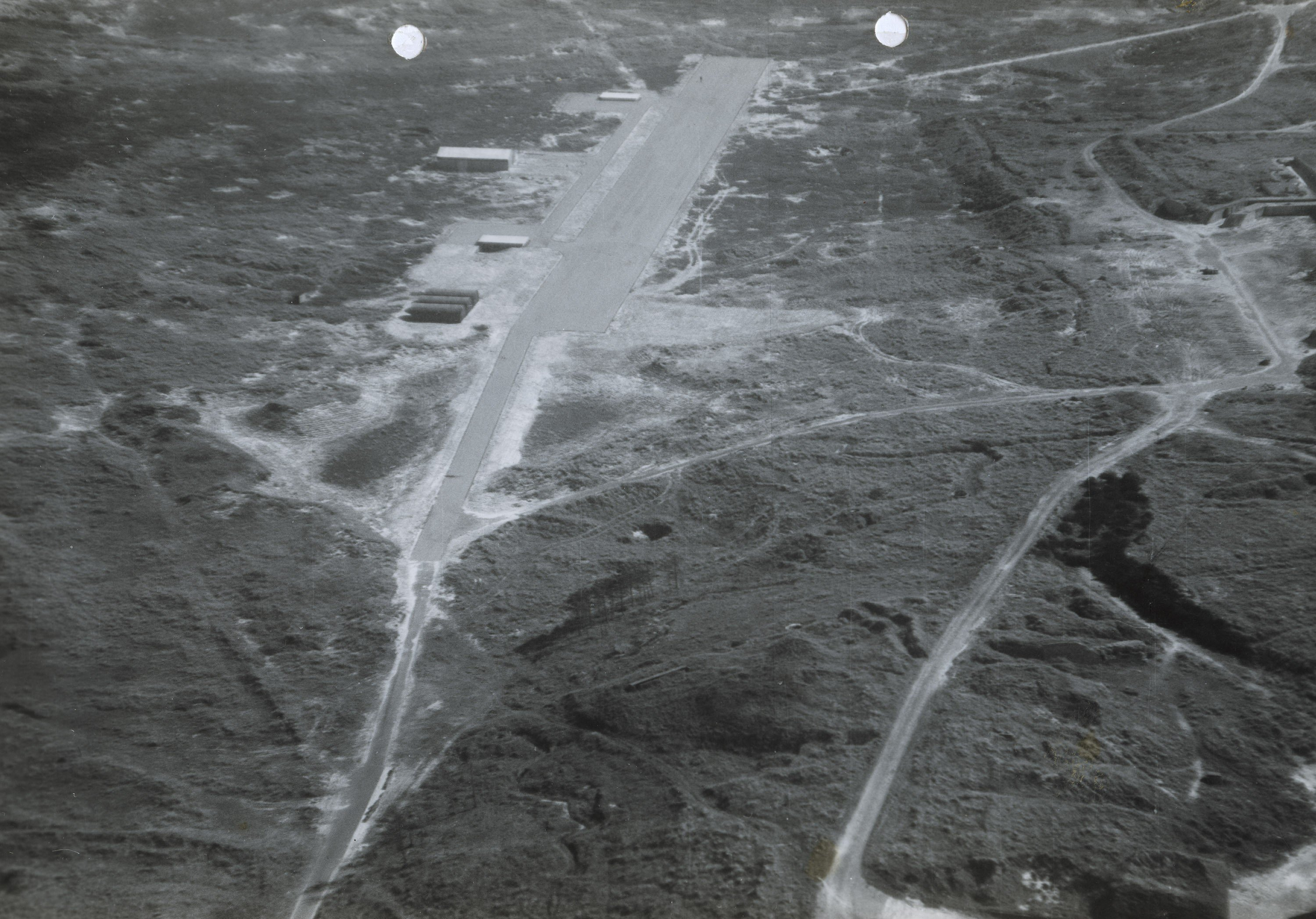 Aerial photo of the dunes of Huisduinen south of the city of Den Helder, The Netherlands. Shooting range of the anti aircraft artillery. View in south direction